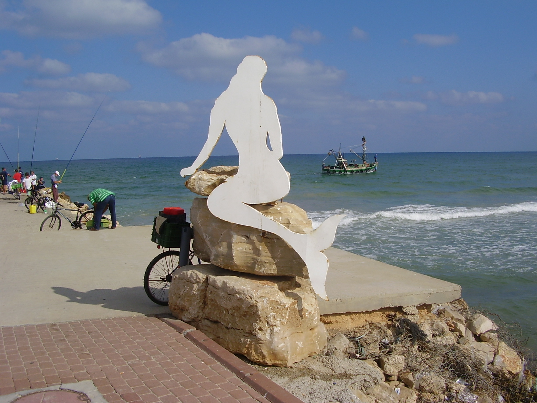 Mermaid statue Kiryat Yam beach